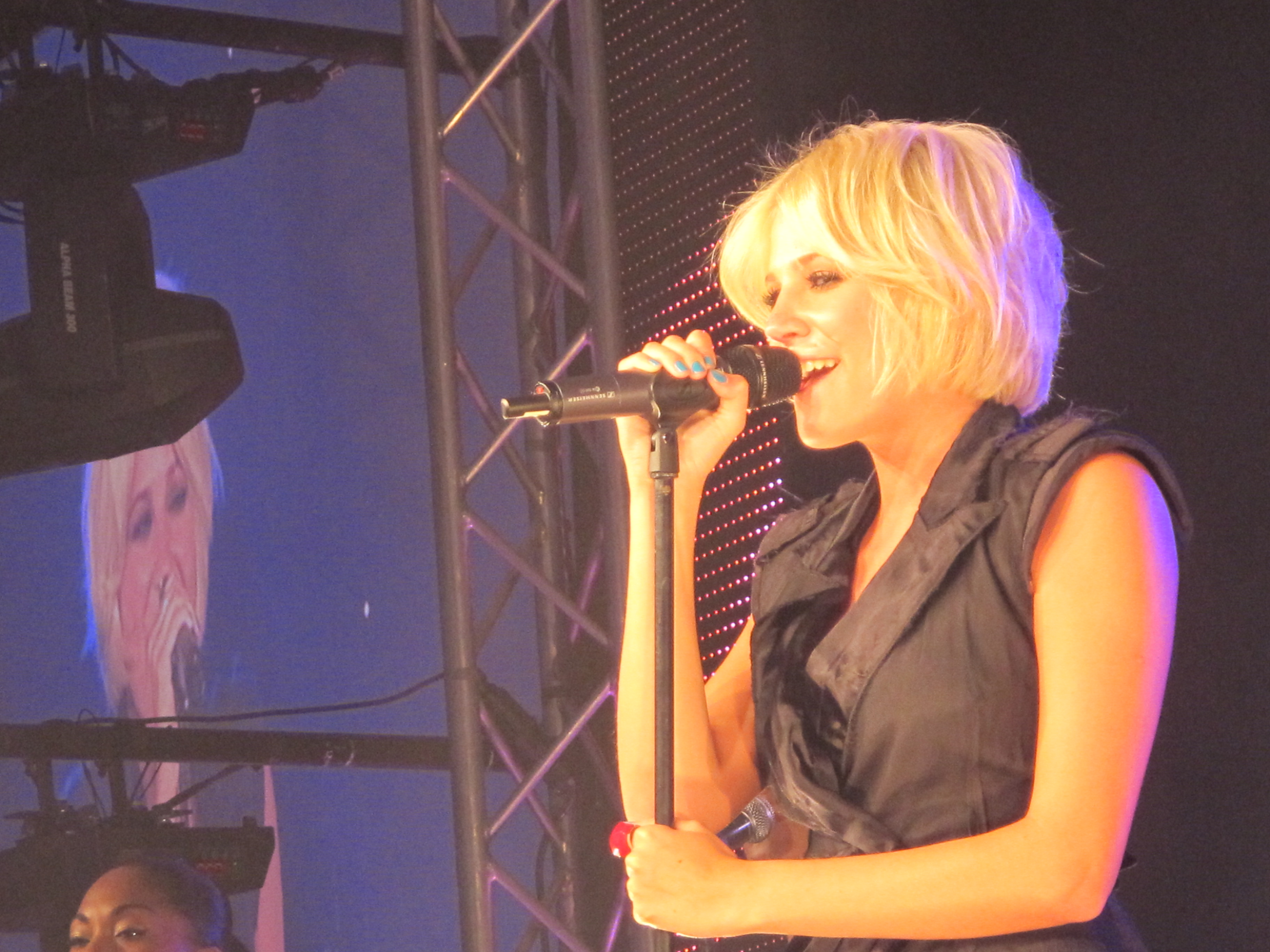 Singer Pixie Lott performing at the Arqiva Awards 2011.